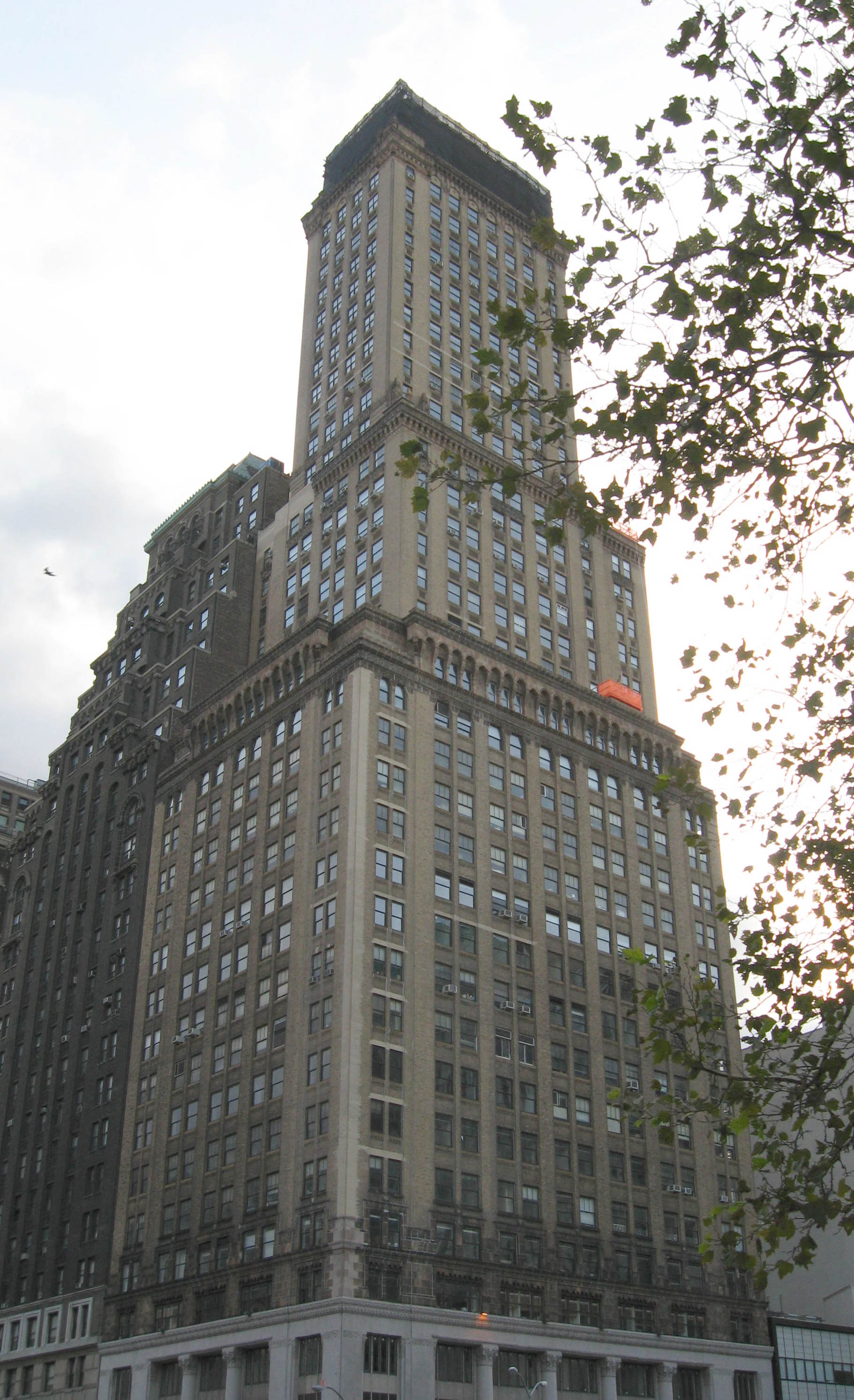 Looking southwest and up at Montague-Court Building at dusk, WTM goal #J21 This photo is of Wikis Take Manhattan goal code J21, Montague-Court Building.